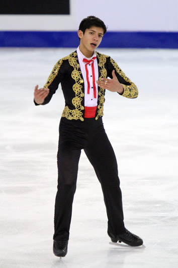 Kevin Alves, a citizen of both Brazil and Canada, at the 2010 World Junior Figure Skating Championships, where he competed for Brazil.